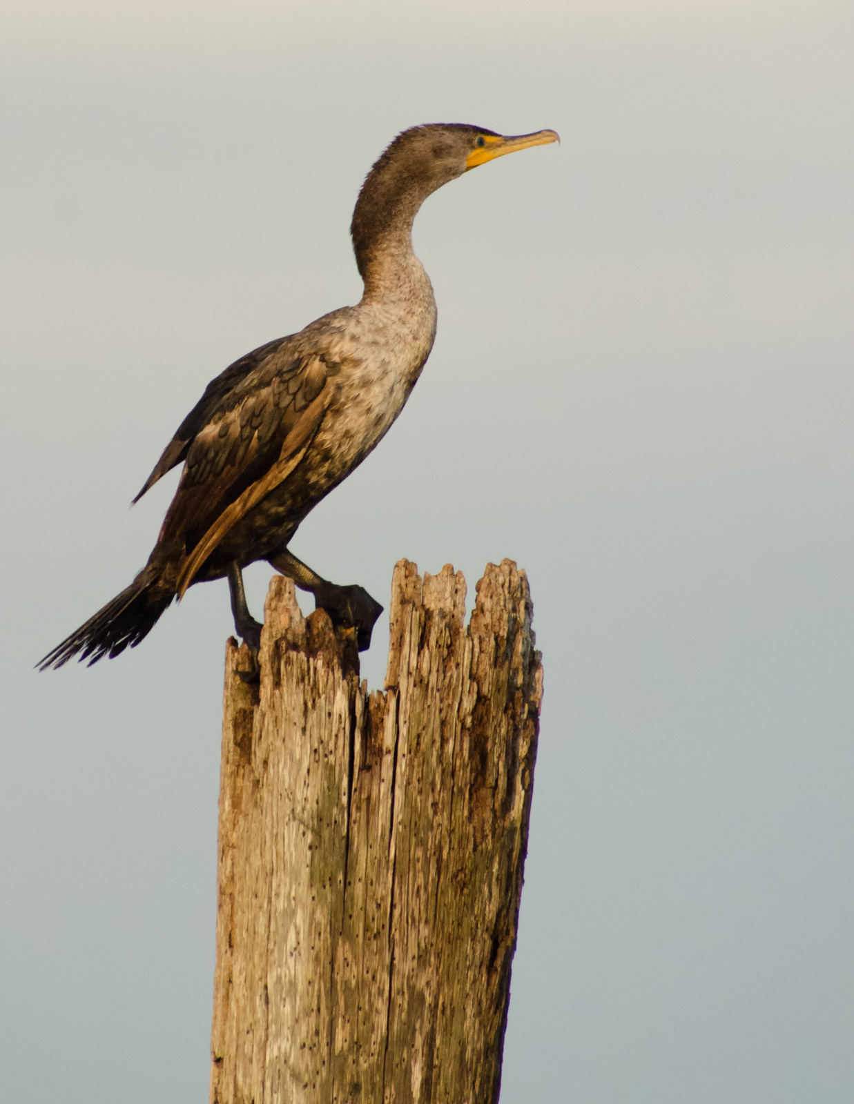 Double crested Cormorant in the Sunset created by: Melissa Fague